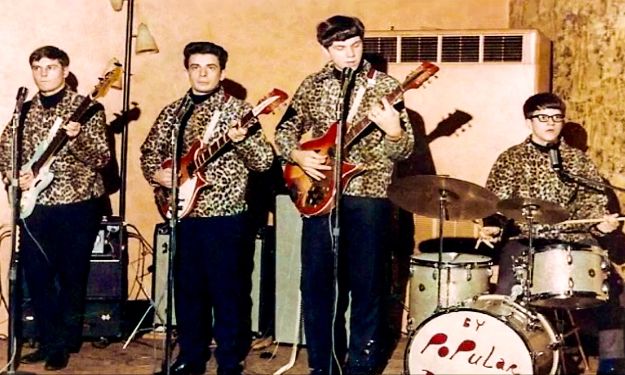 Velvet Crest, a 1960s garage rock band from Mineral City, Ohio originally known as By Popular Demand, perform at a concert c. 1968.